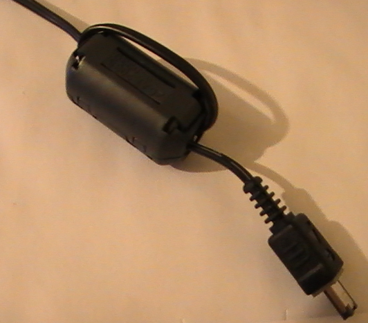 A Ferrite bead filter attached to an AC adaptor cable.